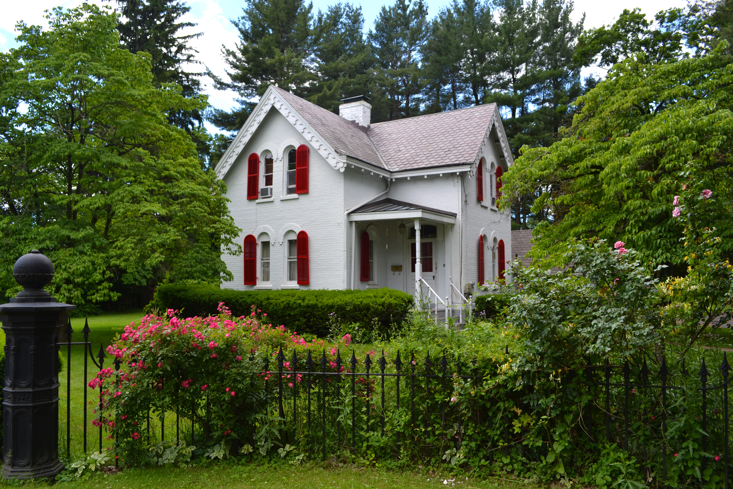 Cedarcliff Gatehouse 66 Ferris Lane, Poughkeepsie, NY East and Northern Facade